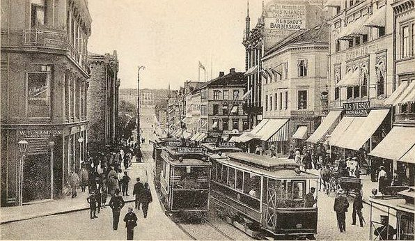 Kristiania Kommunale Sporveie tram in Egertorvet